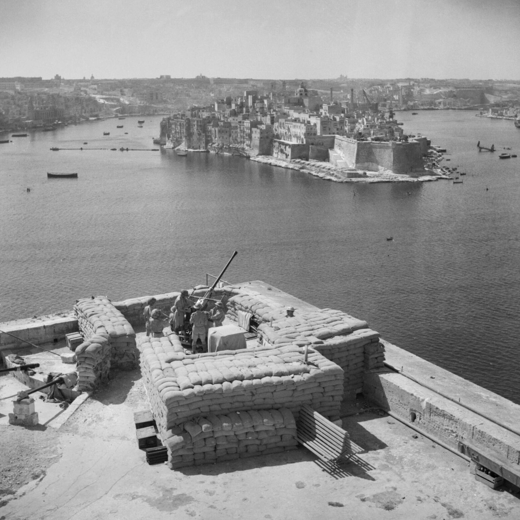 The British Army on Malta 1942 View of a 40mm Bofors anti-aircraft gun position overlooking Grand Harbour, Malta, 10 June 1942.